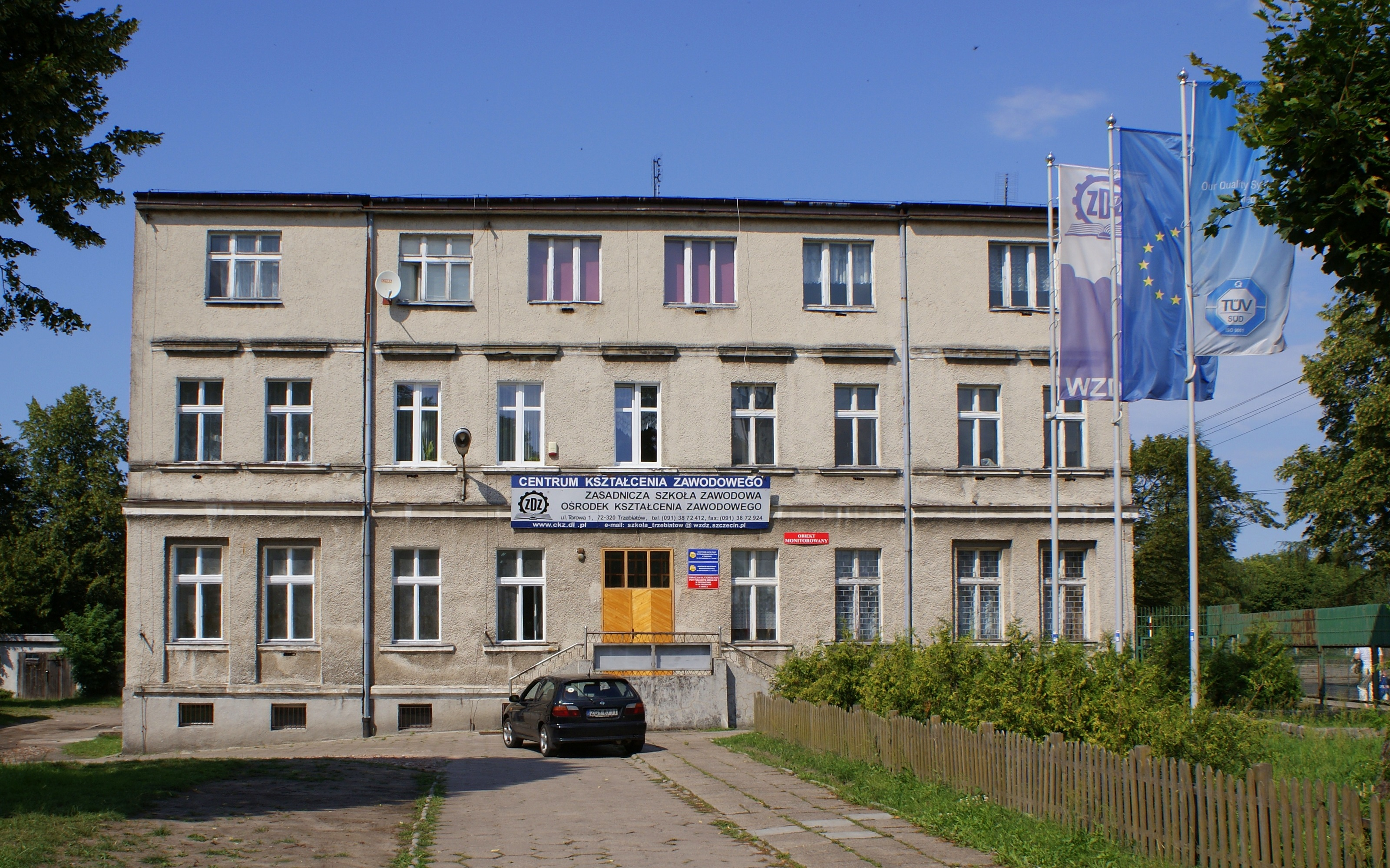 Vocational school in Trzebiatów, Poland